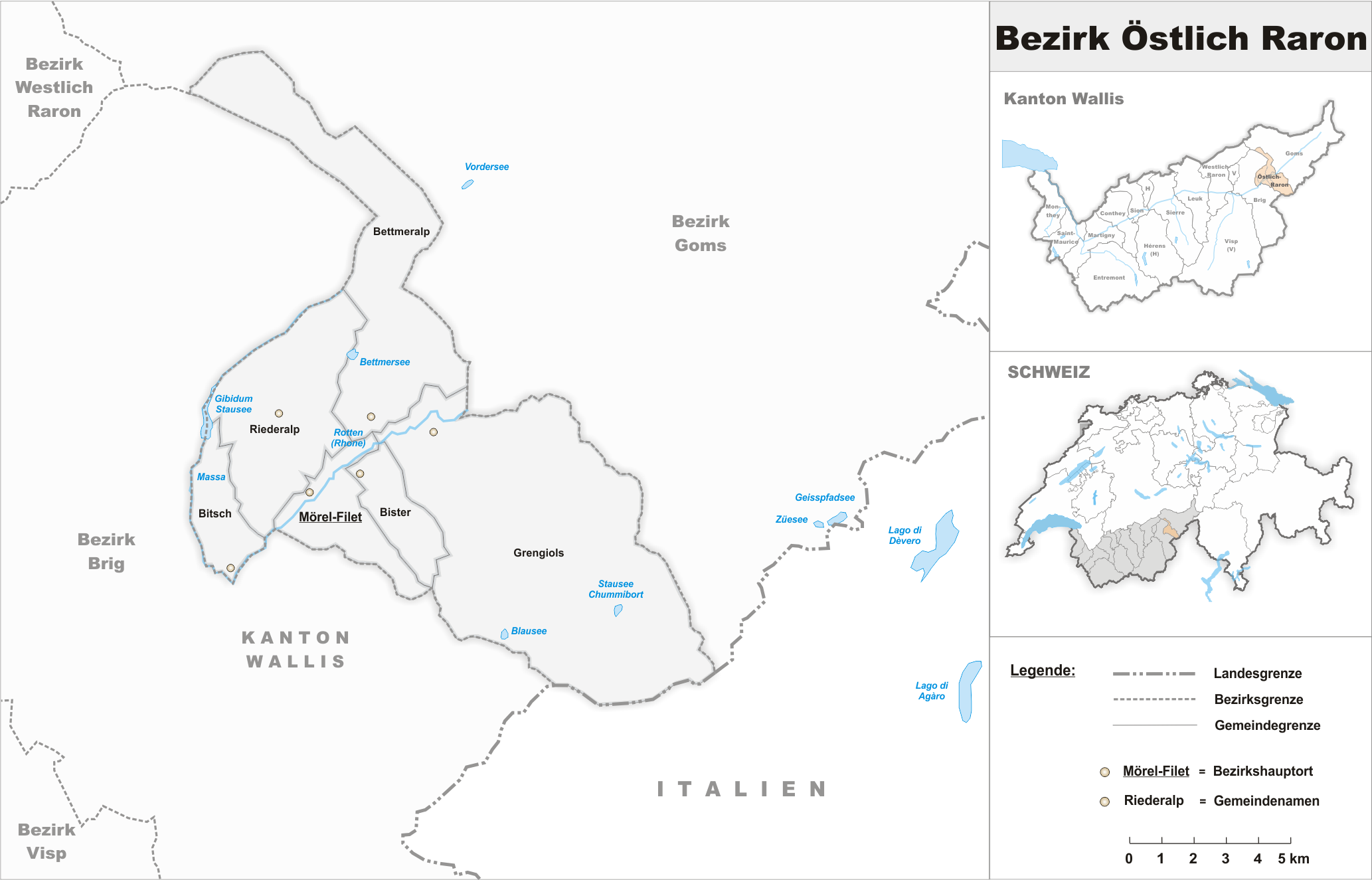 Municipality in the District of Östlich Raron